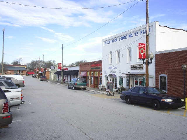 A picture of the businesses on Temple Street in the North Villa Rica Commercial Historic District which is on the National Register of Histpric Places